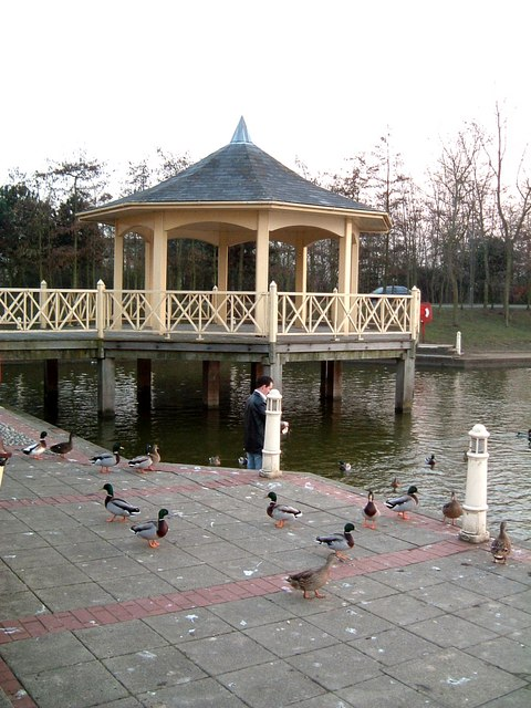 Bandstand & Ducks, Watermead, Aylesbury. I don't know if this little bandstand ever has any little bands in it - but it's a pleasant feature.